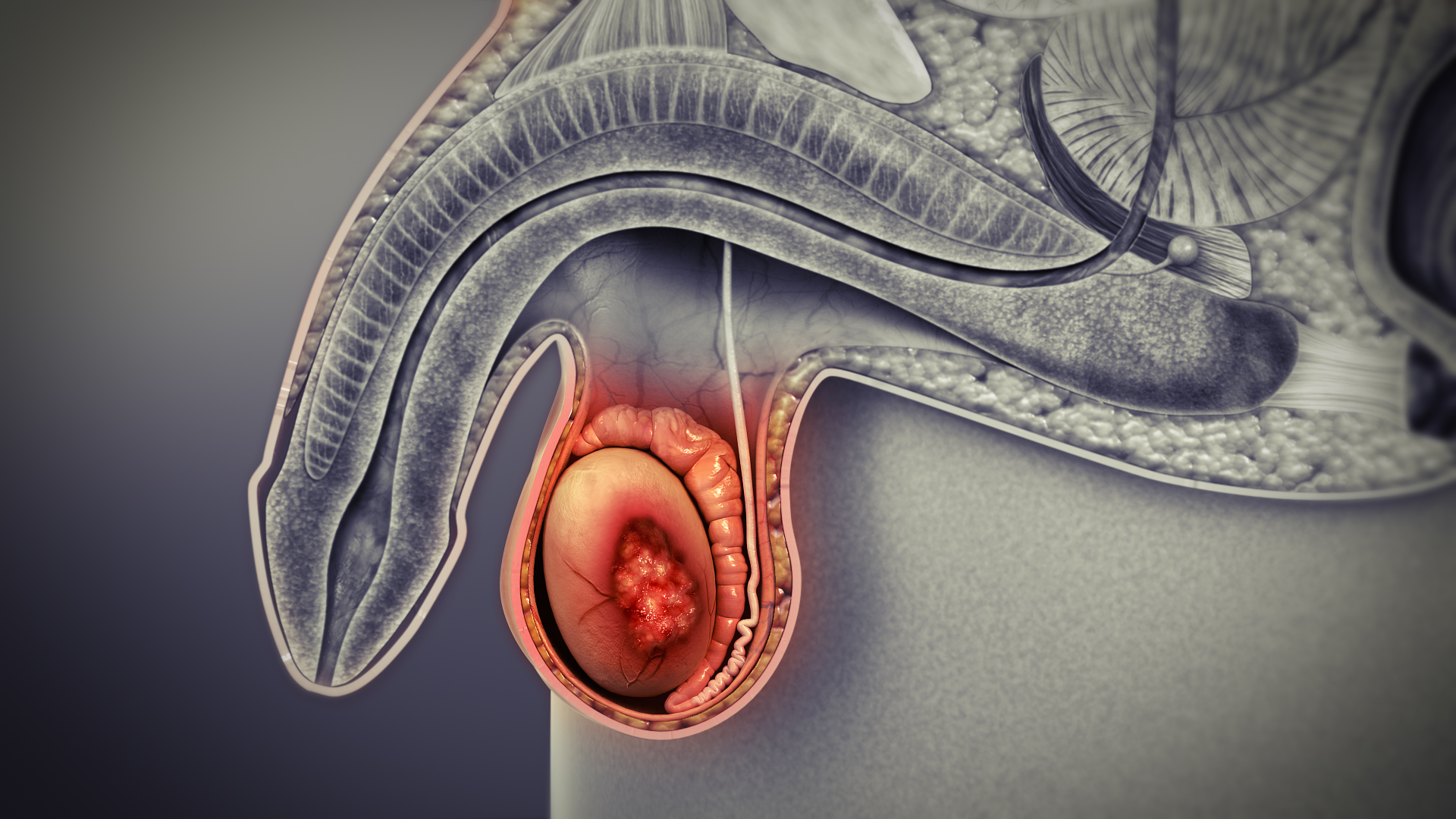 Lump or swelling in the testes.